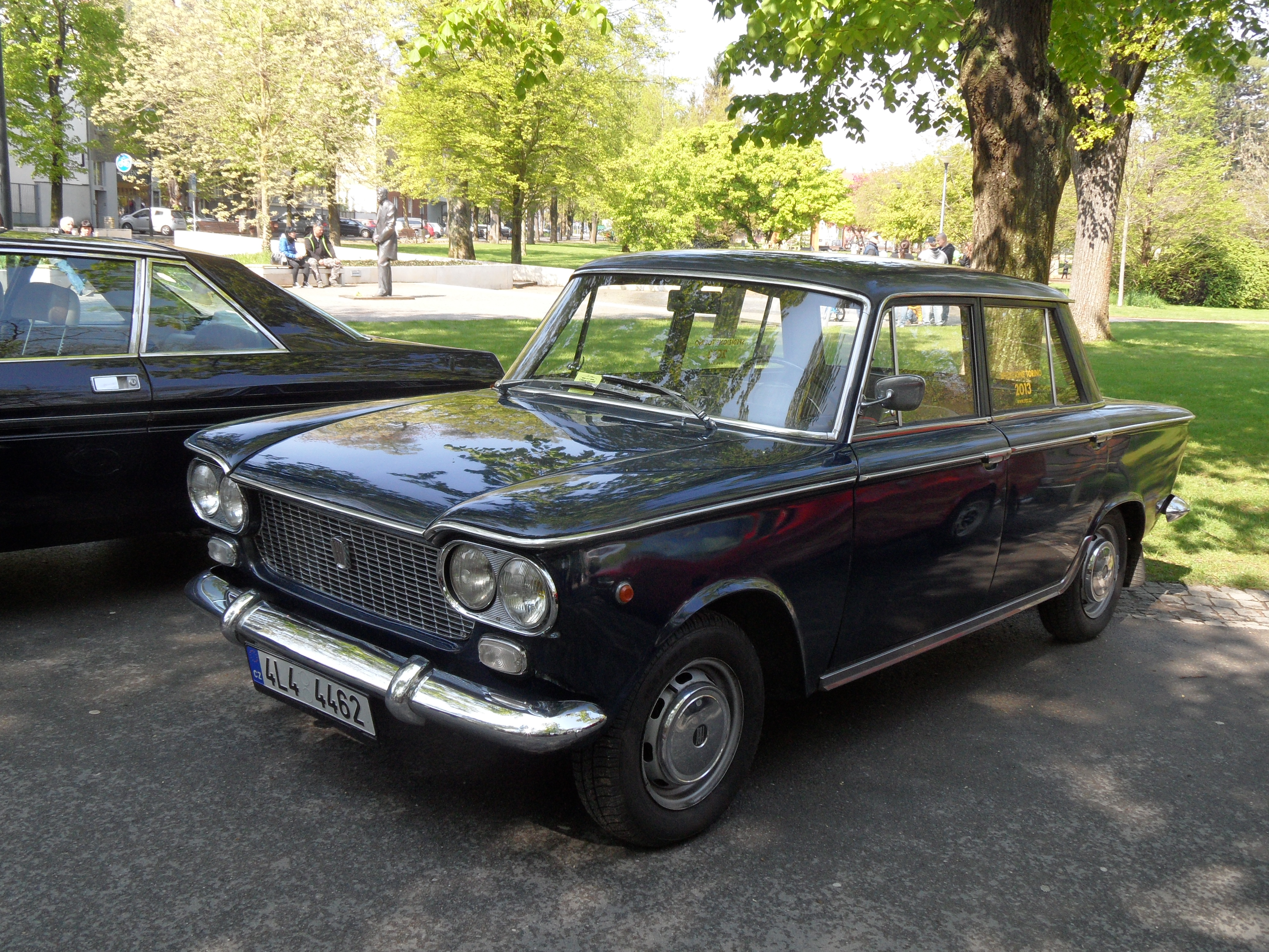 18th Meeting of Italian Car in Poděbrady; Nymburk District, the Czech Republic.Fiat 1300.